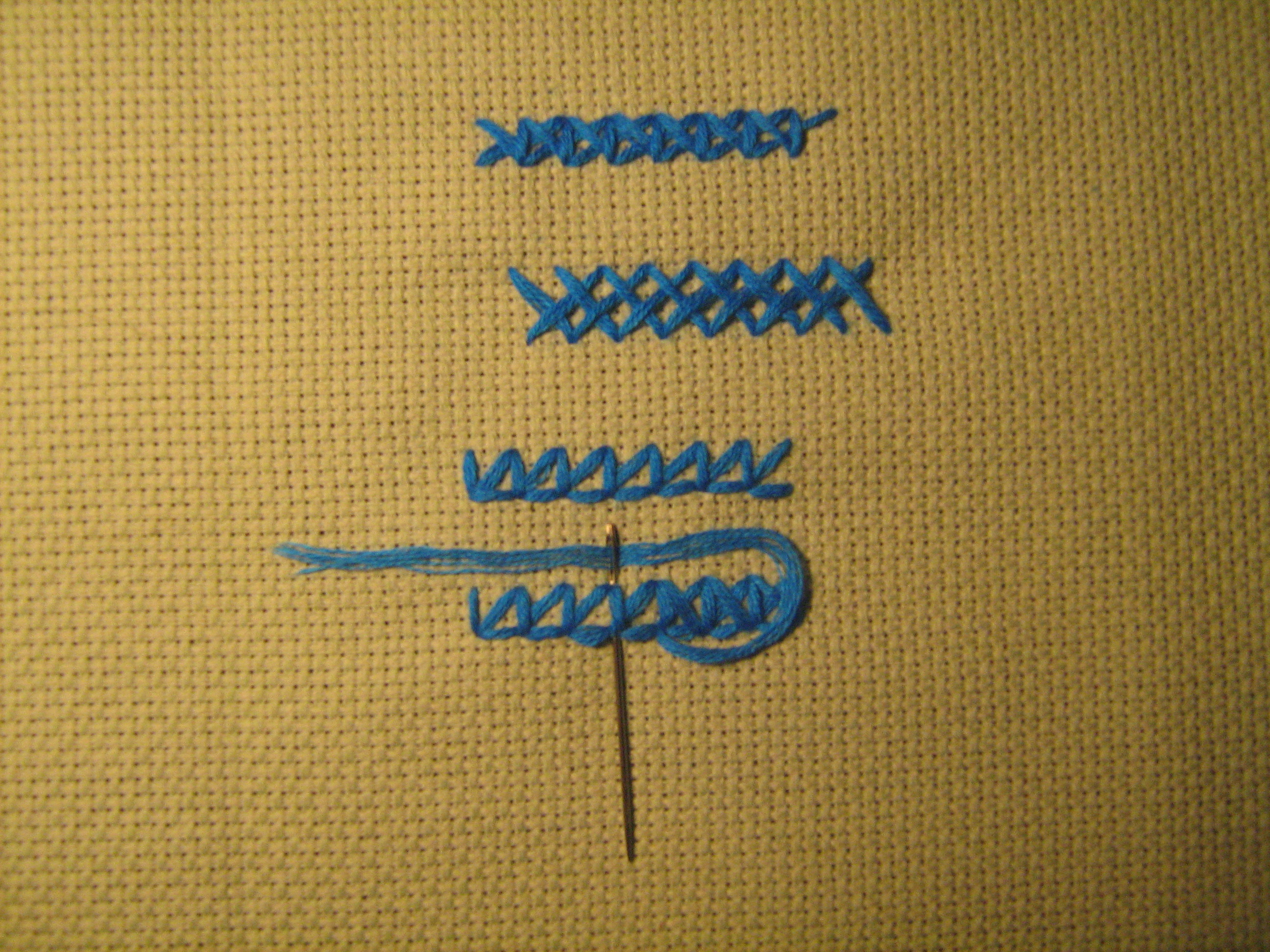 Counted-thread embroidery samples